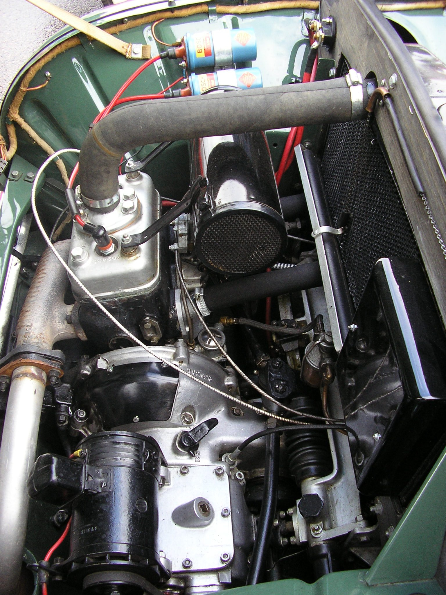 Engine bay of a SAAB 92 DeLuxe. Photographed at the International SAAB Club Meeting 2006. Notice that the engine is a transverse engine. Also notice that the radiator is placed behind the engine (to the right in this picture) and that it has two ignition coils (at the top of the picture), one for each cylinder. The black handle (lower center) is for the freewheel.